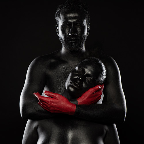 One of my FA graduation shots (smaller than the original for obvious purposes).